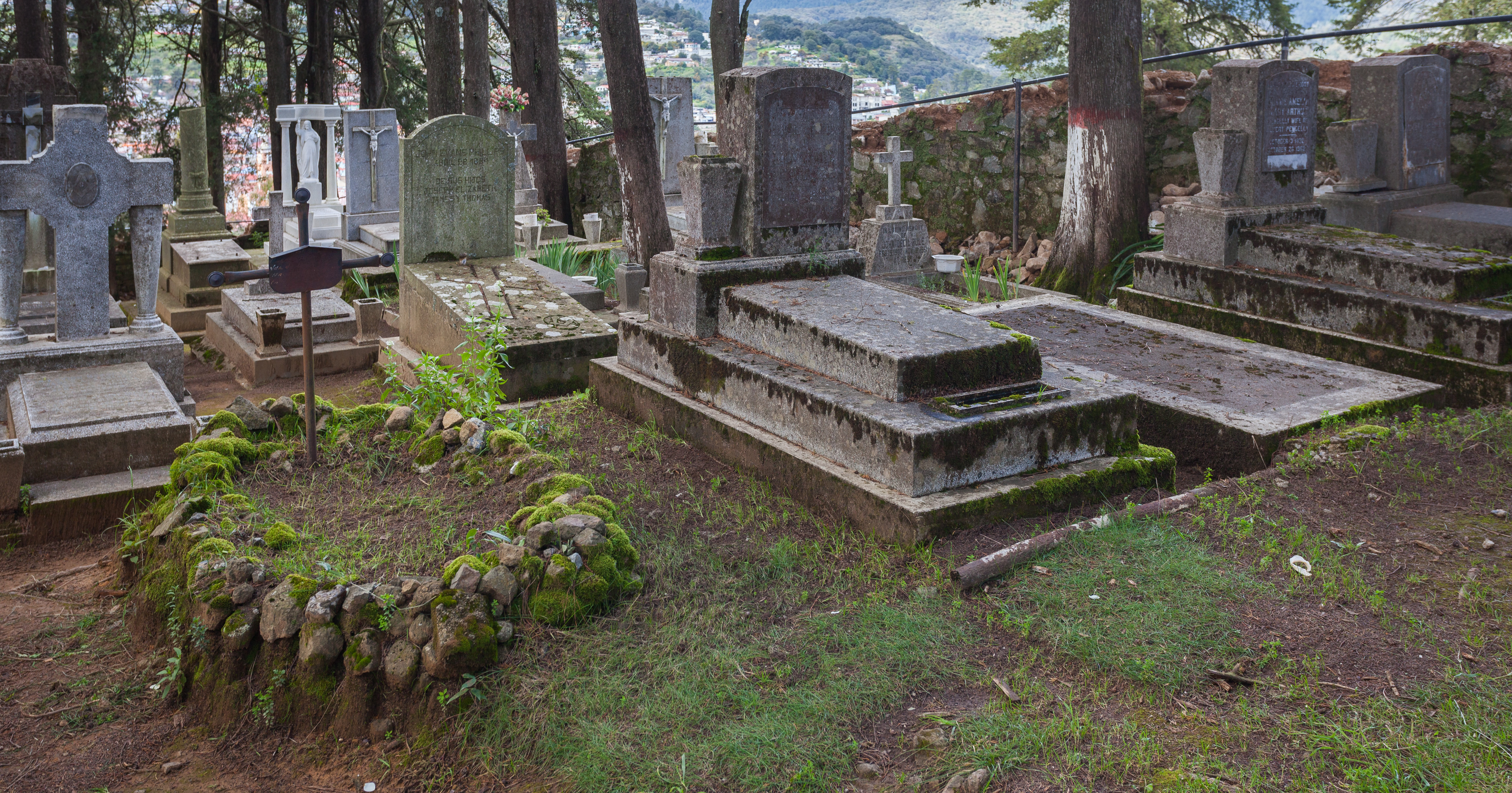 English Pantheon, Real del Monte, Hidalgo, Mexico